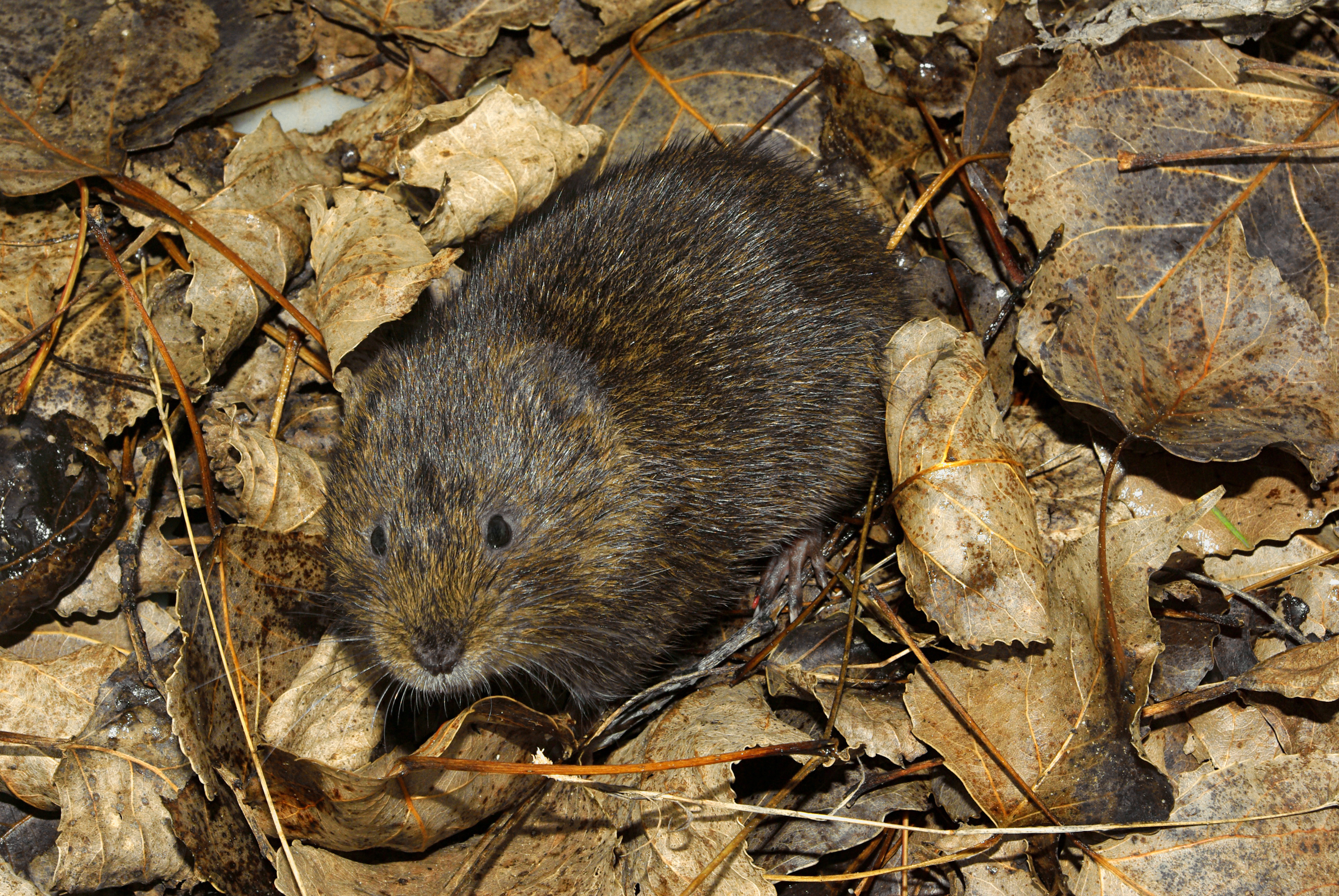 Southwestern Water Vole (Arvicola sapidus). River Porma, near Boñar (León, Spain).